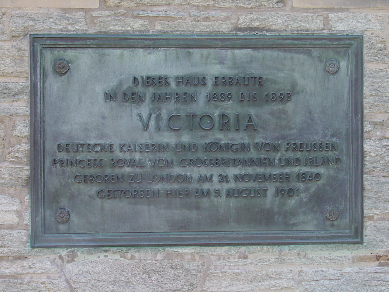 Plague on the facade of Friedrichshof Castle in memory of Empress Victoria of Germany.